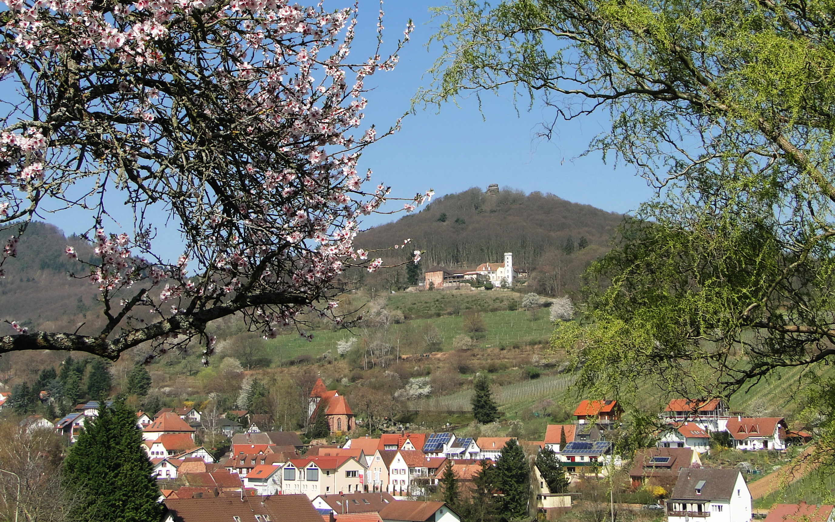 Leinsweiler in the Palatinate (Germany) with the "Slevogthof" (homestaed of the famous German Painter Max Slevogt)